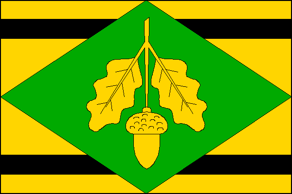 Flag of the municipal corporation Lopeník (Czech Republik)